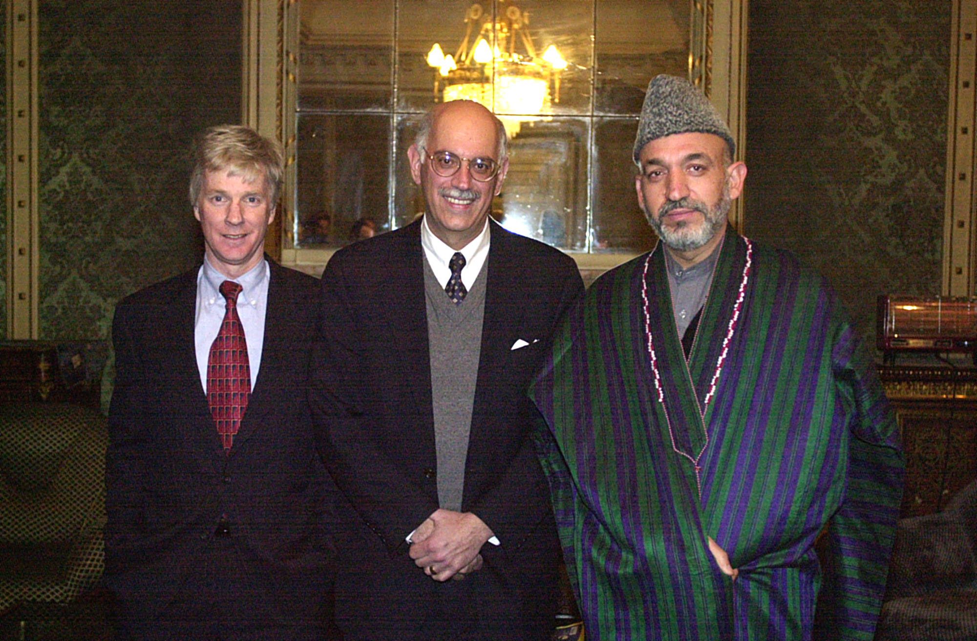 USAID Administrator Andrew S. Natsios meets with Afghan Interim Chairman Hamid Karzai and U.S. Ambassador Ryan Crocker in Kabul, Afghanistan, during the Administrator's recent trip to the region.